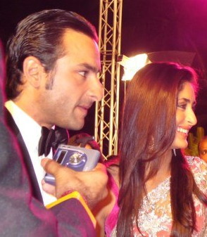 Indian actor Saif Ali Khan with actress Kareena Kapoor at the 53rd Filmfare Awards ceremony